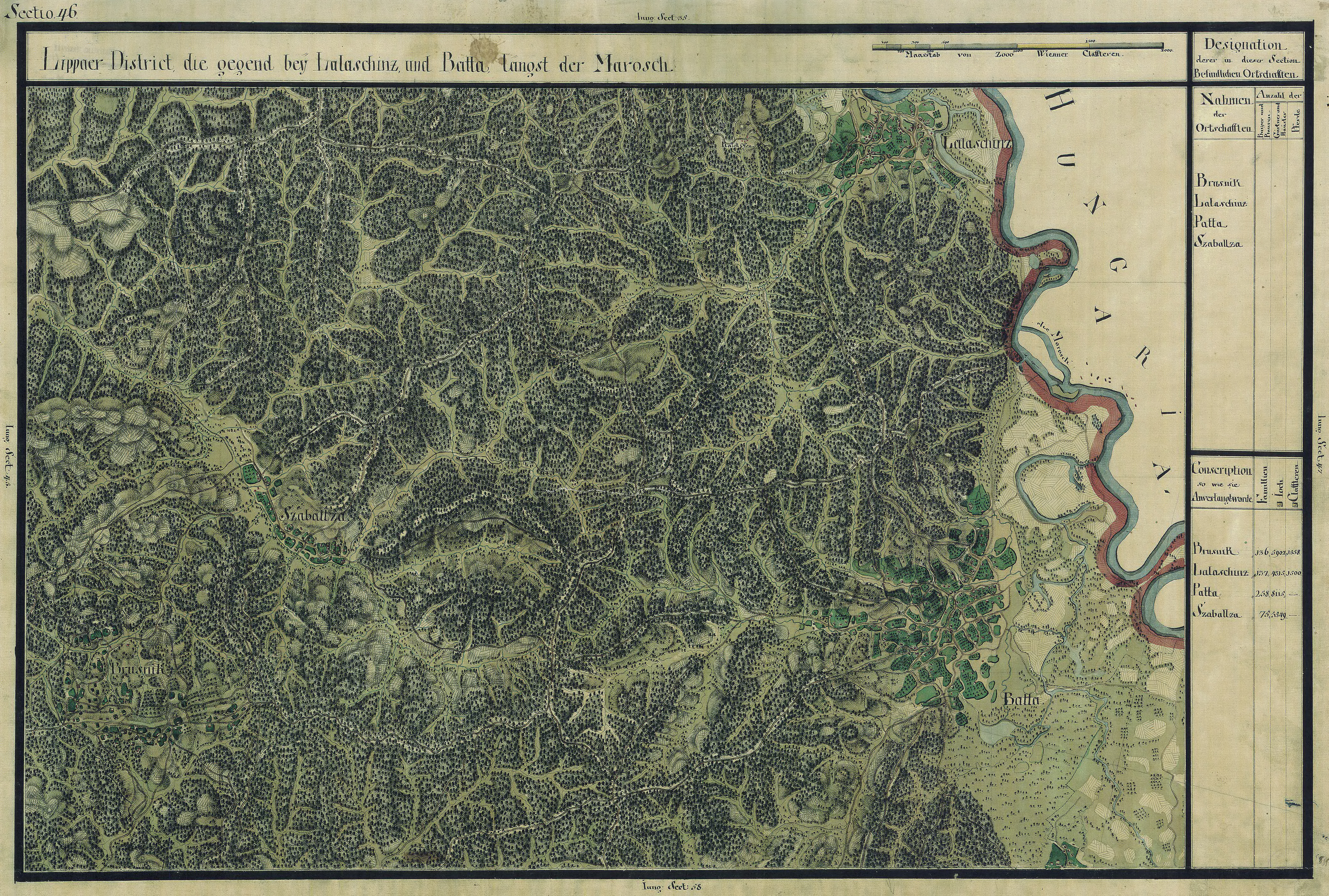 The Banat region in the cadastral maps: Josephinische Landesaufnahme, 1769-72. Josephinische Landaufnahme pg046